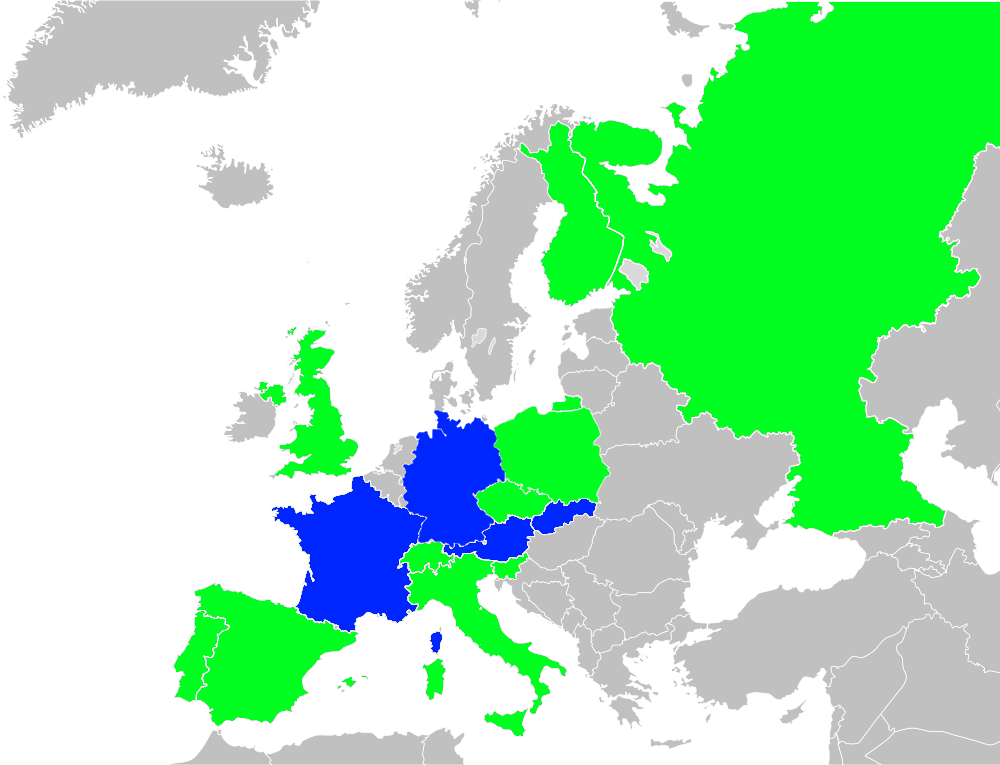 Pendolino in Europe Countries which owns Pendolino Countries which does not own Pendolino, but where Pendolino is used